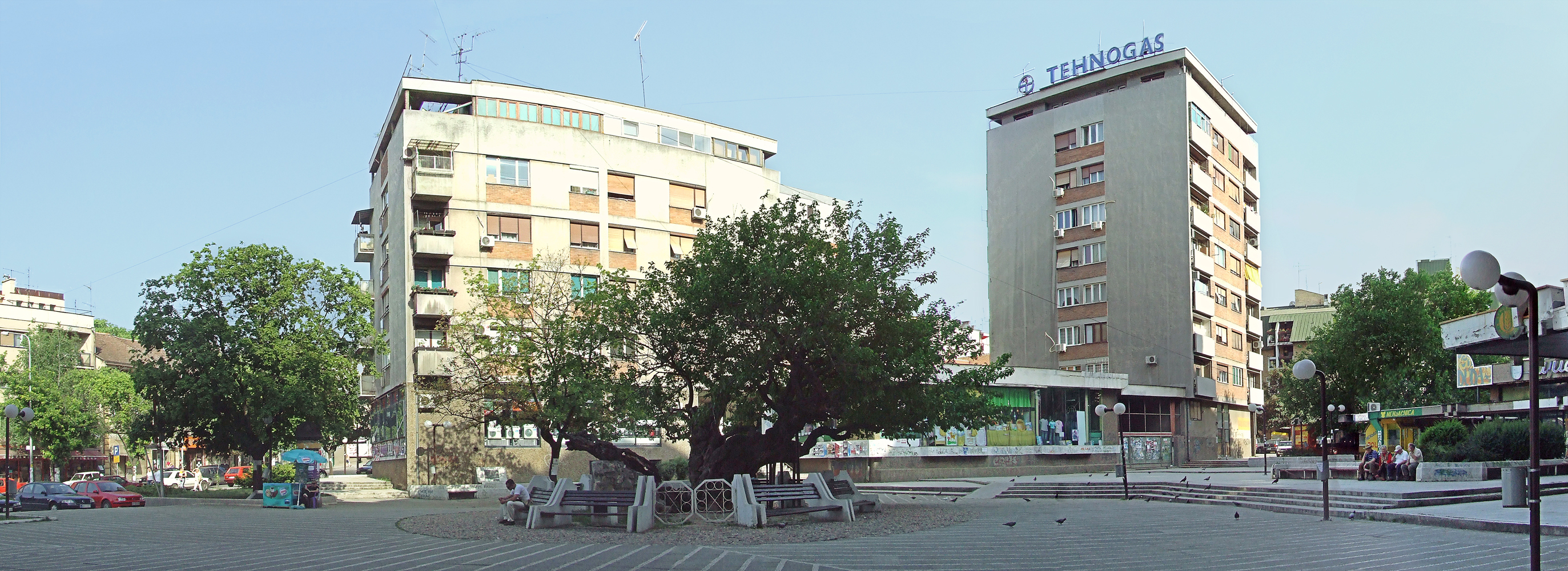 Karađorđev dud (Karađorđe's mulberry) is important place in the history of Smederevo. On November 8th 1805, under this three the keys of Smederevo Fortress were given to Karađorđe, the leader of First Serbian Uprising by turkish Dizdar Muharem Guša (serbian pronunciation). This place is called Trg Karađorđev dud (trg means square in Serbian).